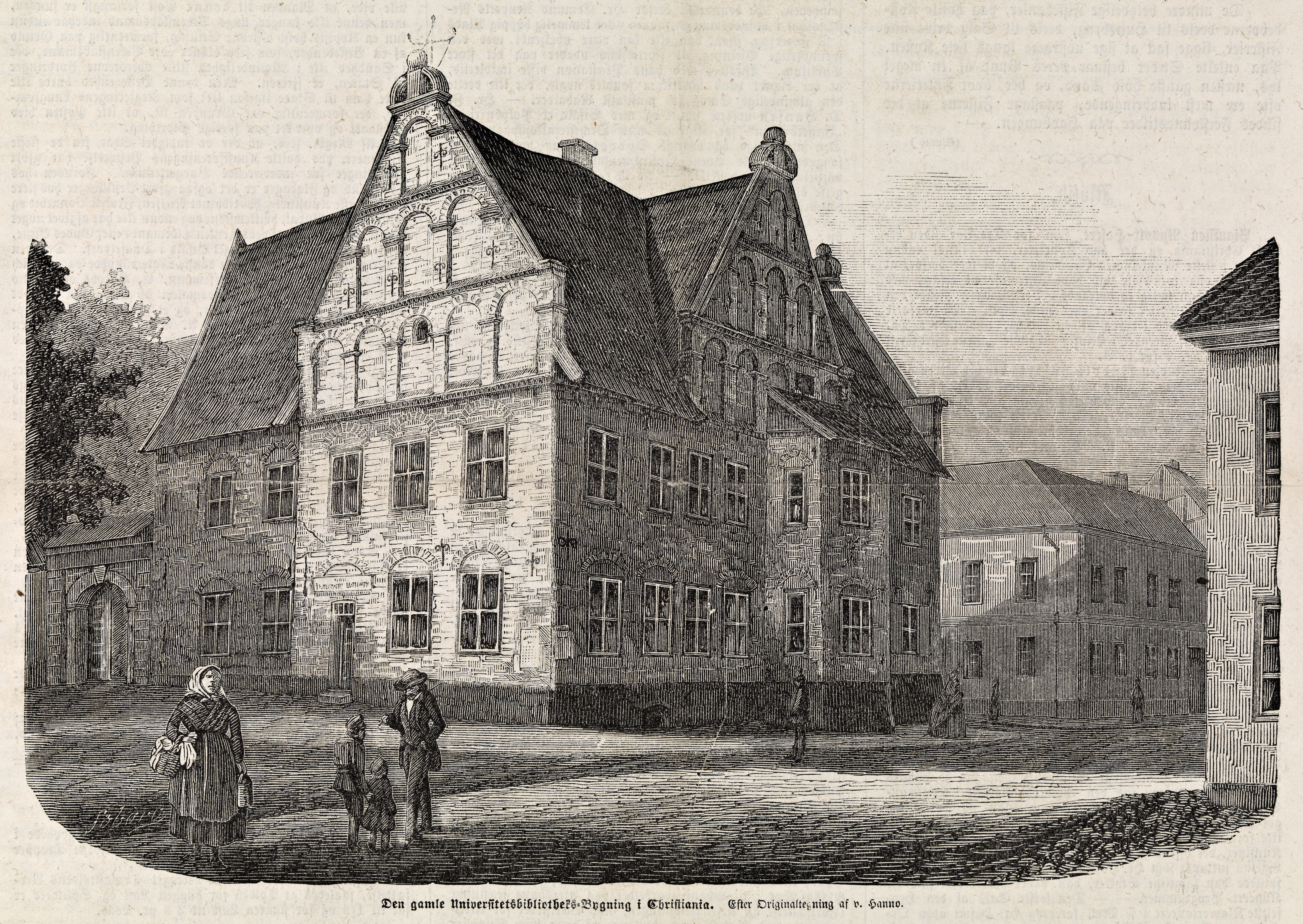 Beskrivelse / Description: "Fra Illustreret Nyhedsblad" nr 11, 11. mars 1860 Dato / Date: 1860 Sted / Place: Oslo, Rådhusgata 19 Kunstner / Artist: Hanno Digital kopi av original / Digital copy of original: s/h trykk Eier / Owner Institution: Nasjonalbiblioteket / National Library of Norway Lenke / Link: Bildesignatur / Image Number: blds_04013